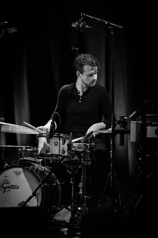 Marius Neset performs at Victoria Teater during Oslo Jazzfestival 2015. Band members: Marius Neset - Saksofoner, Frans Petter Eldh - Kontrabass, Anton Eger - Trommer, Jim Hart - Vibrafon, Ivo Neame - Piano/Keyboard